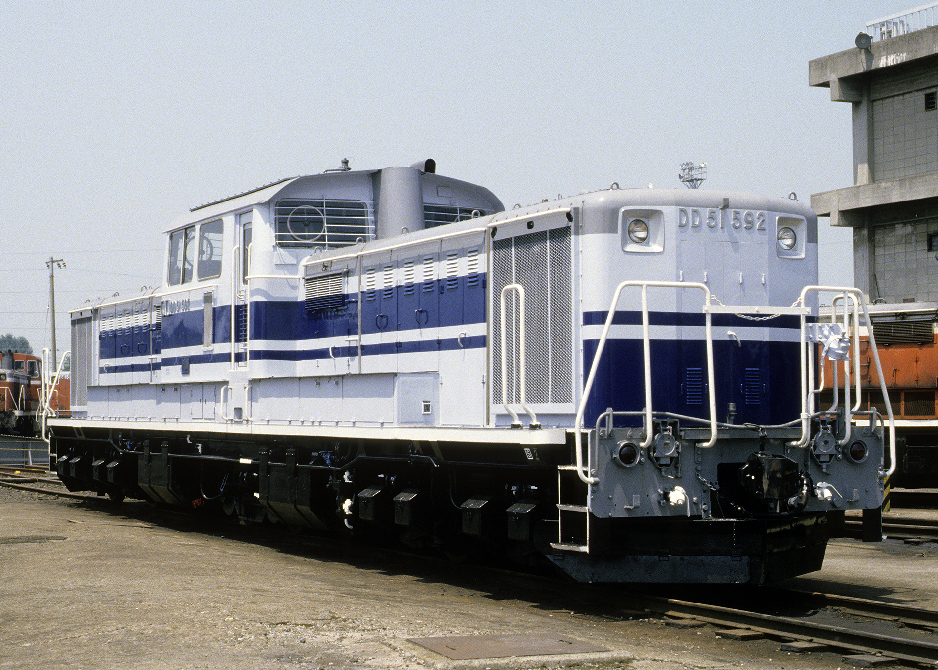 JNR Class DD51 diesel Locomotive number DD51 592 in Euro Liner livery at an open day events at Inazawa Depot